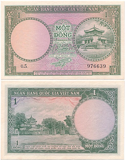 South Vietnam 1 Dong 1955.